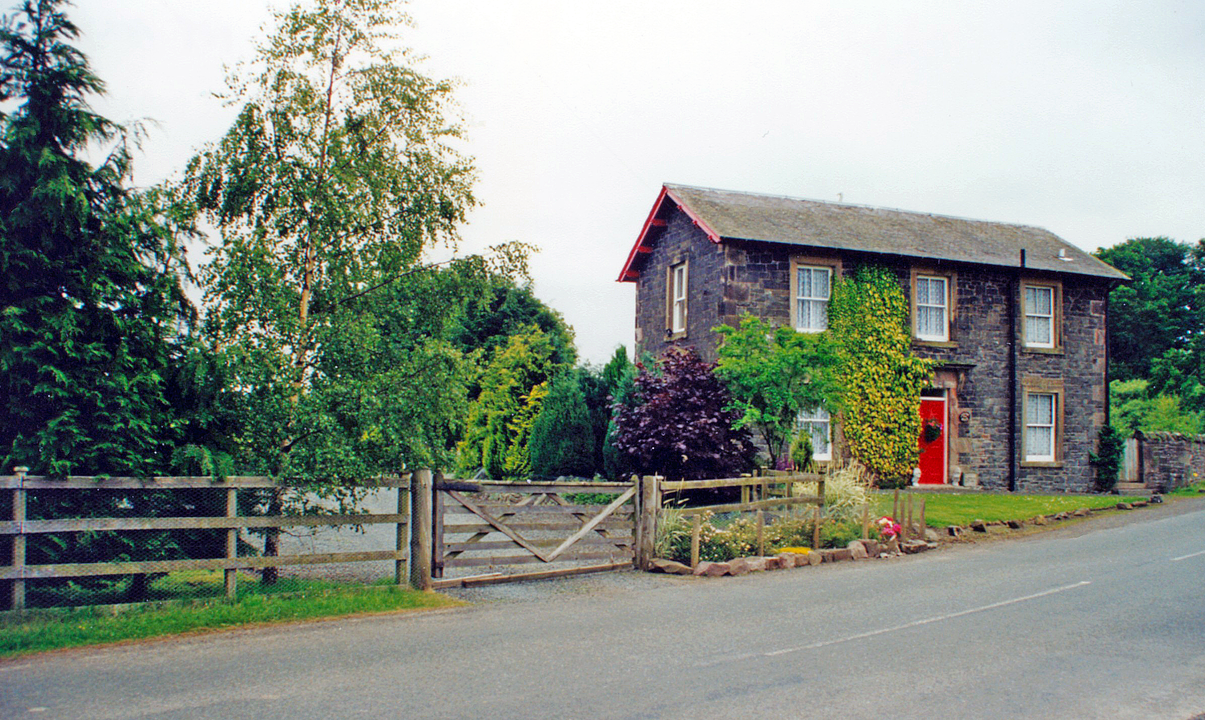 Fountainhall station (site/remains), 2000. View SE, towards Galashiels (and Tweedbank), Hawick and Carlisle, also Lauder: ex-NBR Waverley Route, Edinburgh - Hawick - Carlisle main Line, closed entirely 6/1/69. The station was entitled 'Fountainhall Junction' until 1959, because a branch used to go off to the left here to Lauder; this closed to passengers 12/9/32, to goods 1/10/58. Fountainhall is on the renewed Waverley Route, Edinburgh - Tweedbank, which in March 2014 is well advanced, but no new station is planned at this location.